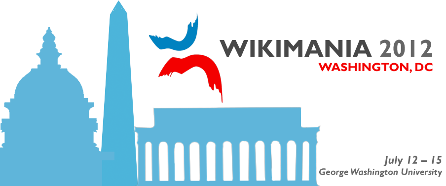 Logo for the Washington, DC bid for Wikimania 2012.